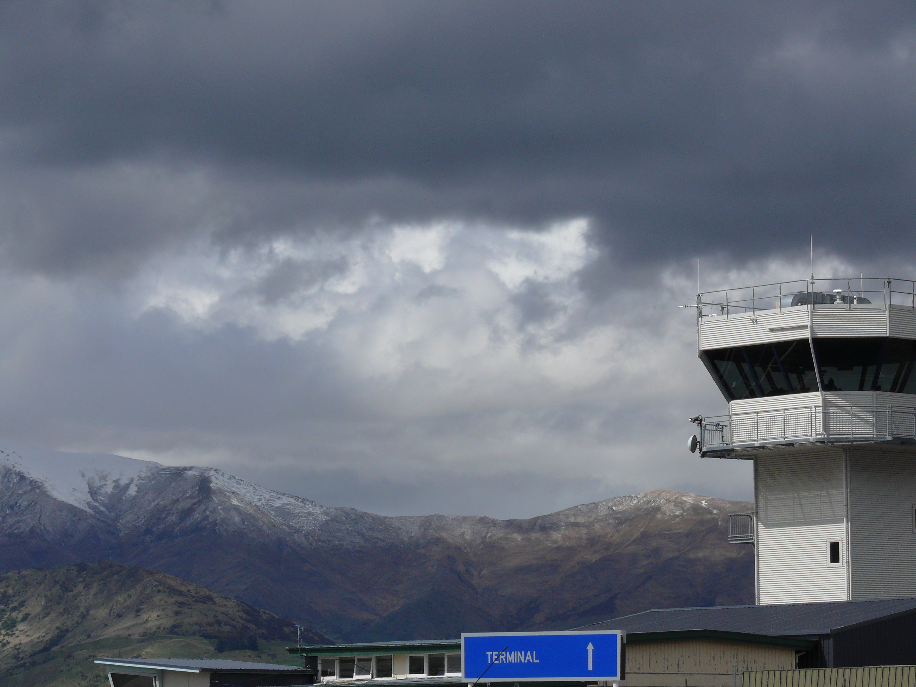 Airport Quenstown(NZ), control tower